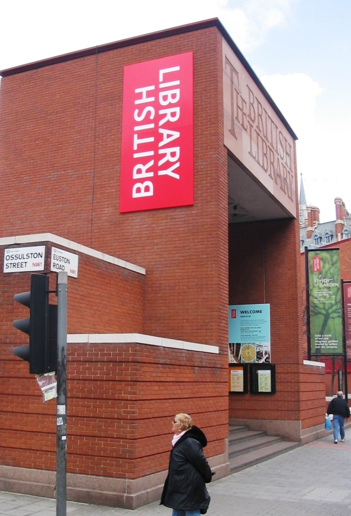 British Library entrance on Ossulston Street